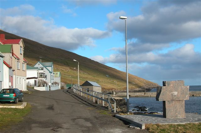 Sigmundur Brestisson s monument in Sandvík